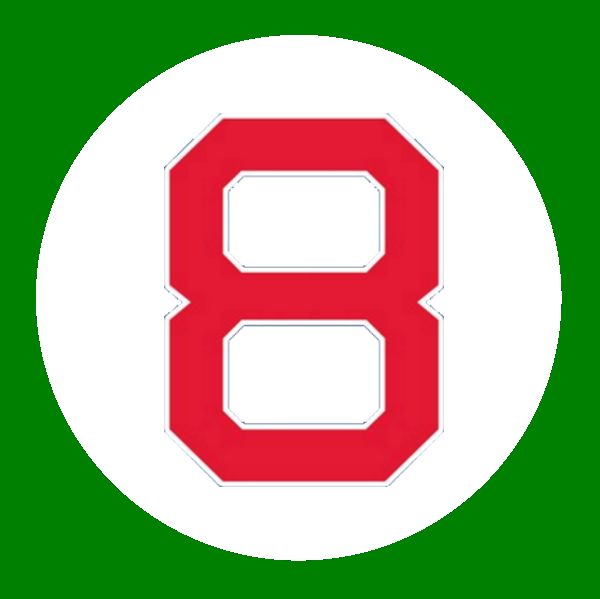 Red Sox retired numbers as hung on the right-field facade during the 2016 season in Fenway Park